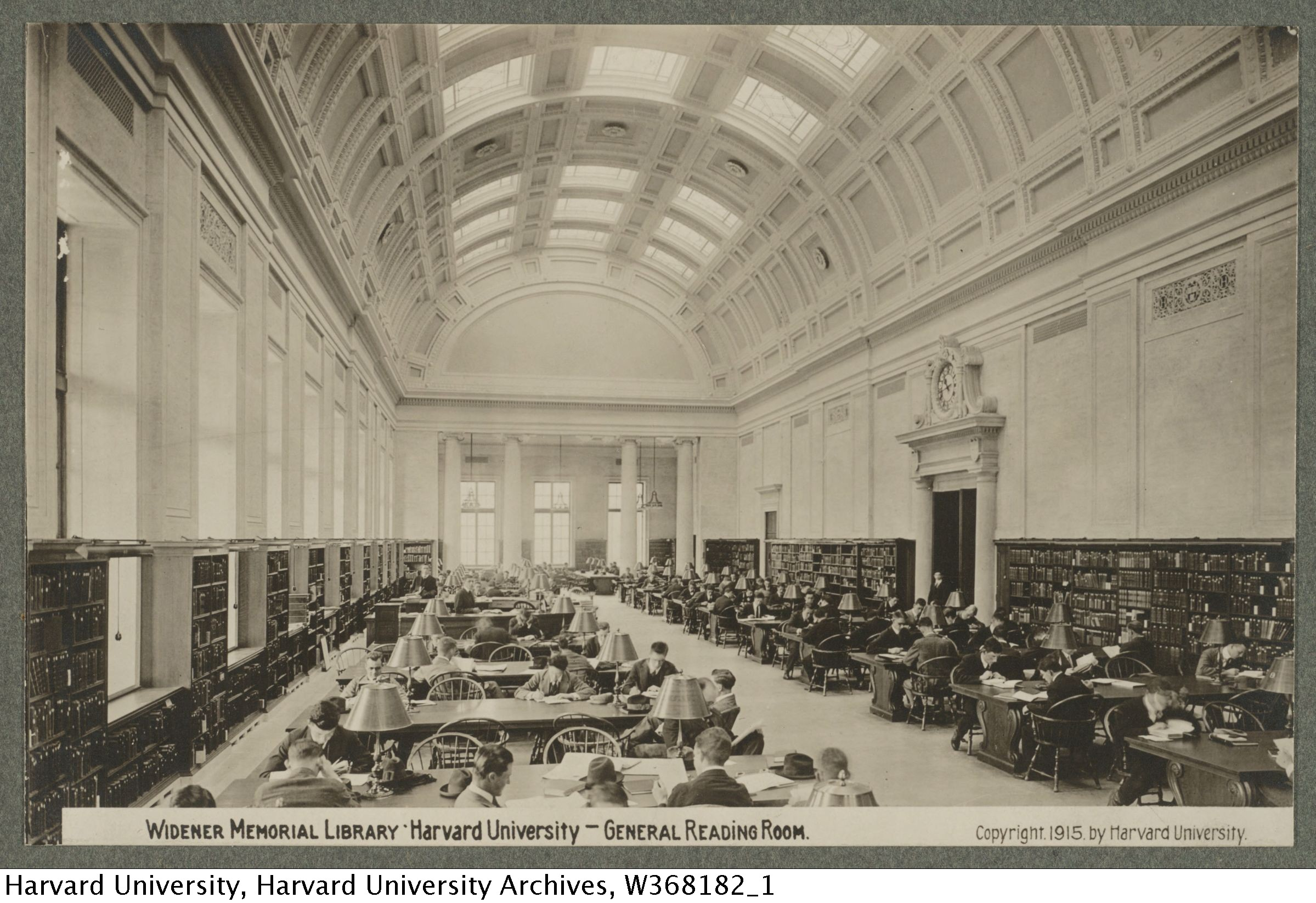 Main reading room, Harry Elkins Widener Memorial Library, Harvard University, c.1915